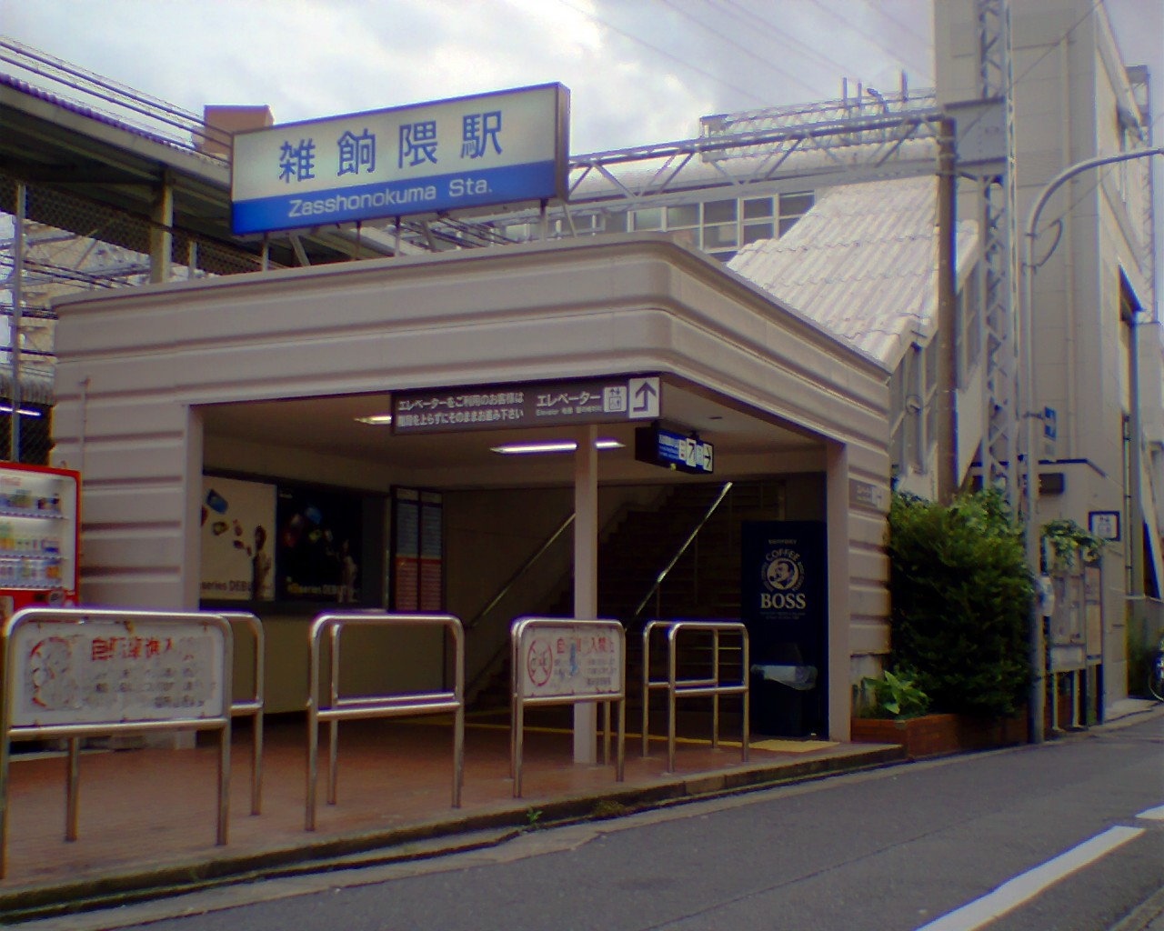 North side of Zasshonokuma Station in Hakata-ku, Fukuoka City, Japan